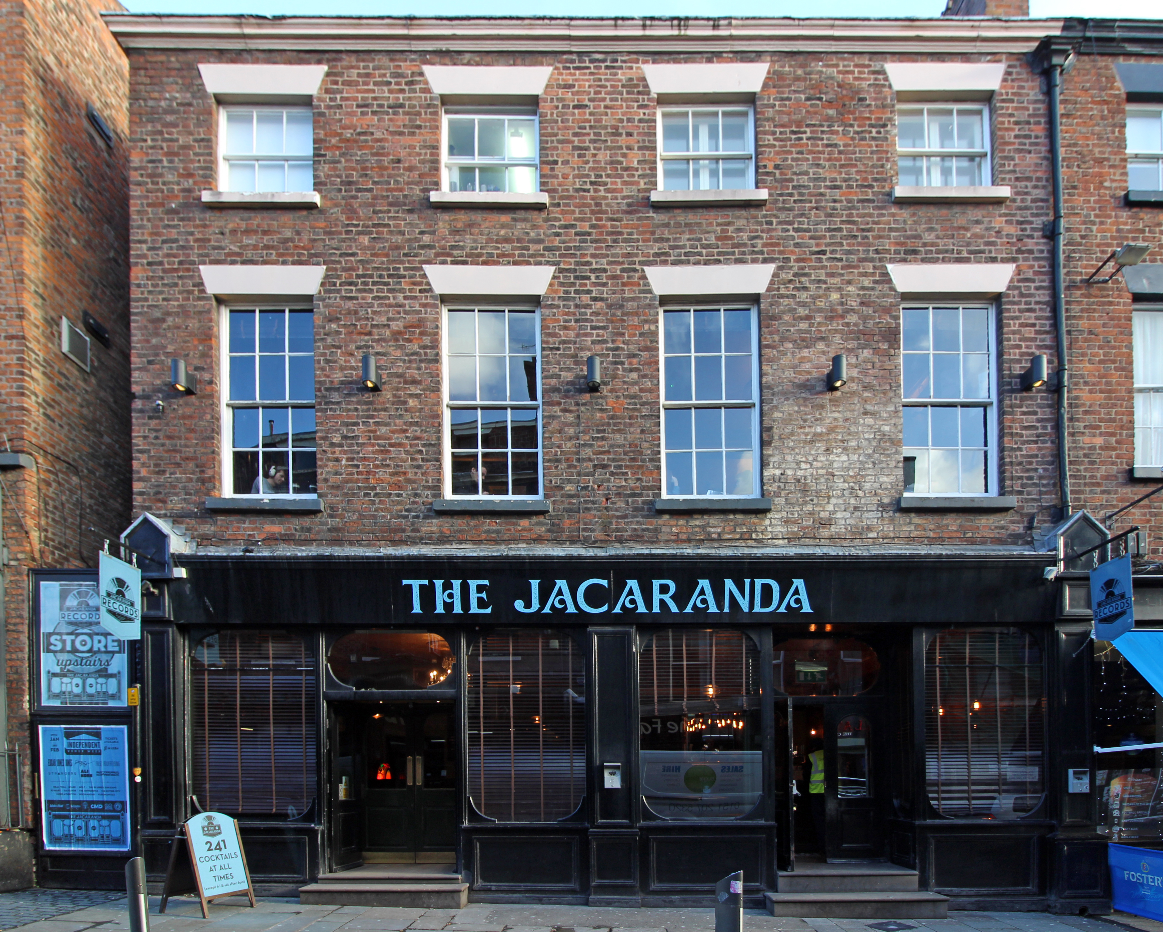 The Jacaranda was opened by Allan Williams in 1958 and was frequented by The Beatles. As a result, Williams became their first roadie, driving them to Hamburg in 1960. It remains a popular tourist destination for Beatles fans from across the world. Front elevation across Slater Street.